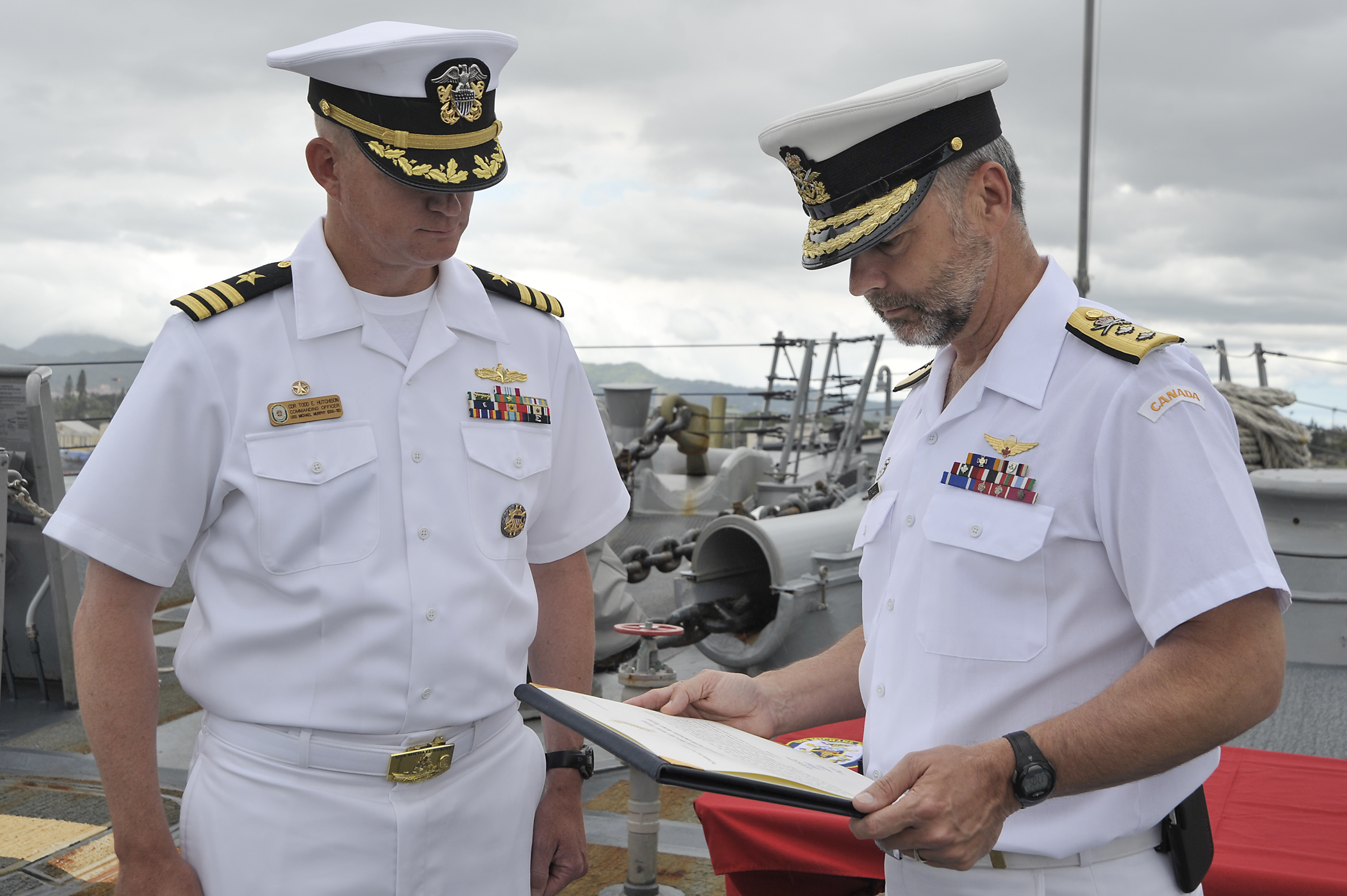 PEARL HARBOR (May 26, 2015) Royal Canadian Navy Rear Adm. William Truelove, commander, Maritime Forces Pacific (MARPAC), prepares to present Cmdr. Todd E. Hutchison, commanding officer of the guided-missile destroyer USS Michael Murphy (DDG 112), with the Canadian Forces’ Unit Commendation while aboard Michael Murphy at Joint Base Pearl Harbor-Hickam. Truelove also presented Rear Adm. Rick Williams, commander of Navy Region Hawaii and Naval Surface Group Middle Pacific, with the Canadian Forces’ Unit Commendation. The commendation was given in appreciation for the recovery efforts of Her Majesty’s Canadian Ship (HMCS) Protecteur after suffering an engine fire several hundred miles off the coast of Hawaii during its transit back to Esquimalt, British Columbia, in February 2014. (U.S. Navy photo by Mass Communication Specialist 2nd Class Johans Chavarro/Released)